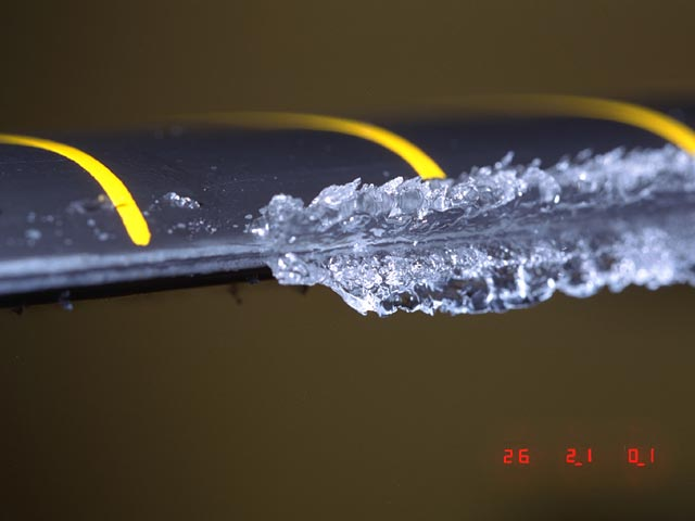 Image shows one possible type of ice accretion that can be produced in the NASA Icing Research Tunnel.